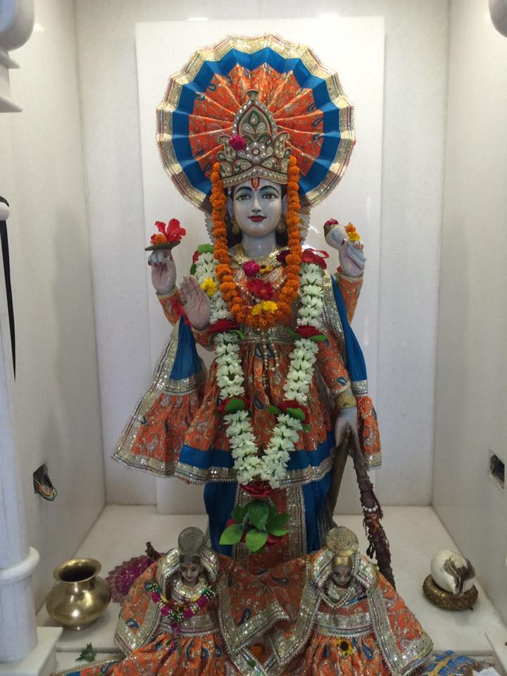 Newly constructed temple look in July 2016